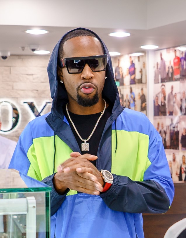 Safaree Icebox 2019